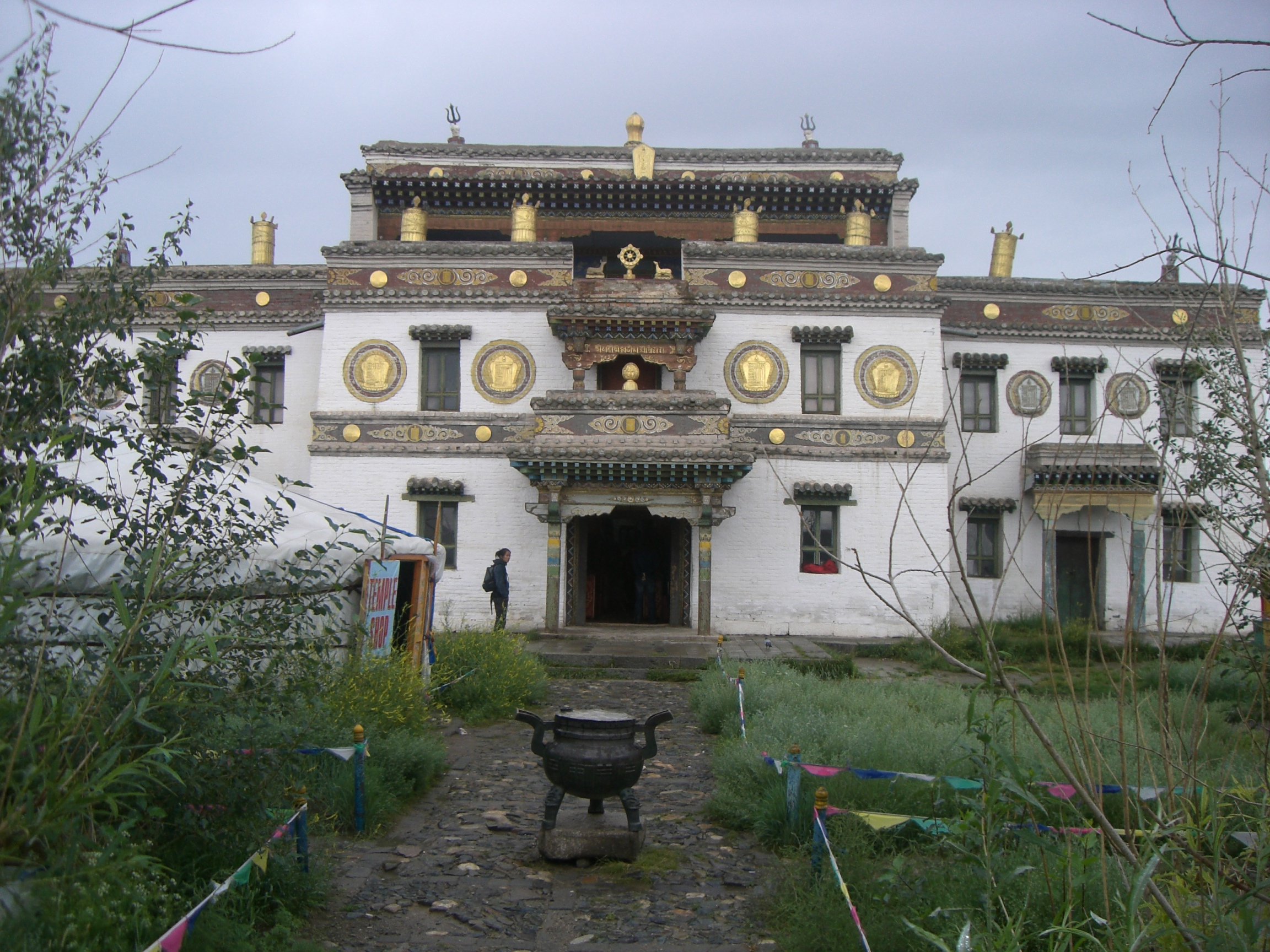 Monastery Erdene Zuu in Mongolia